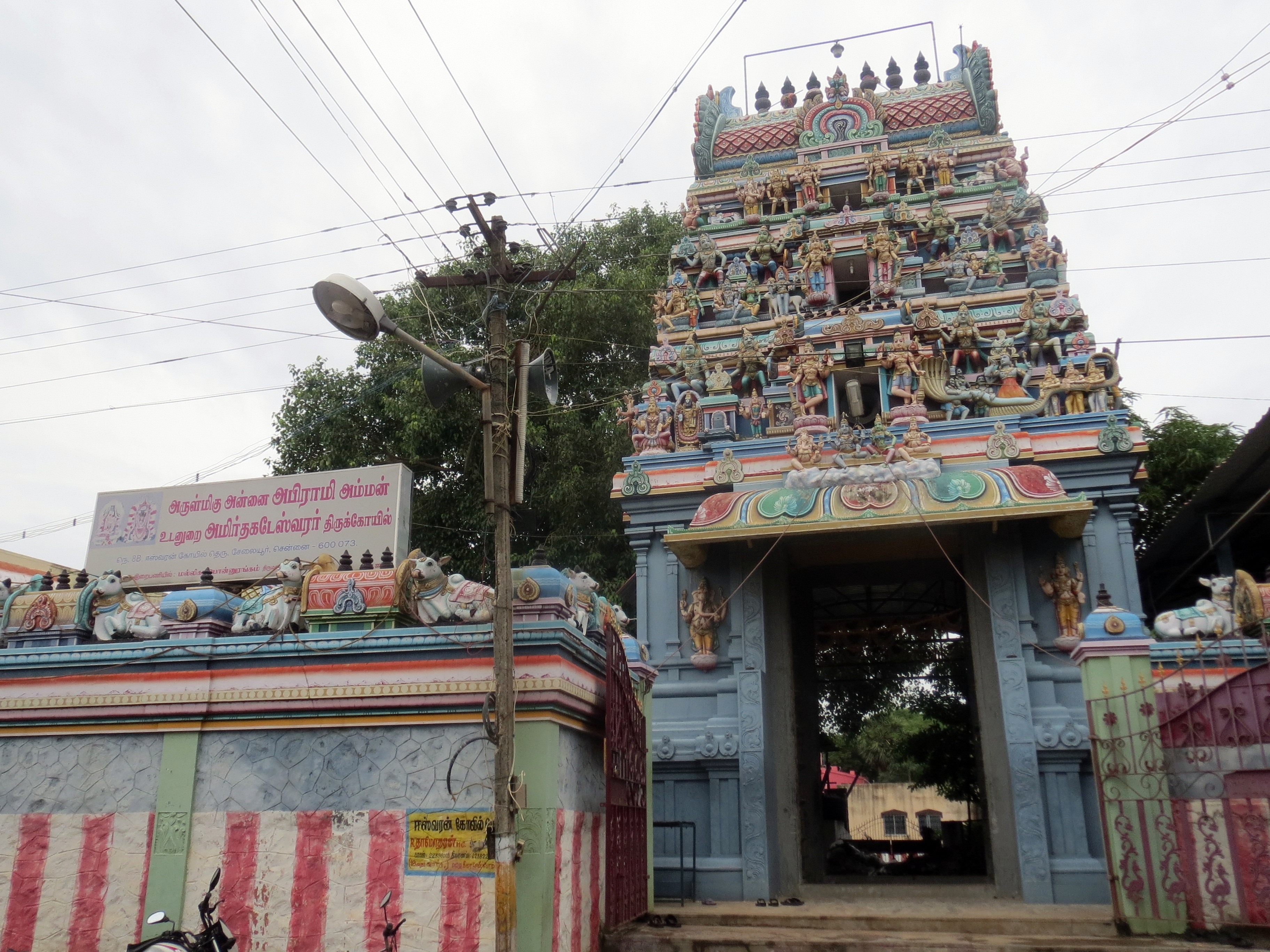 A view of Rajagopuram-Amirthakadeswarar koil at Selaiyur in chennai.